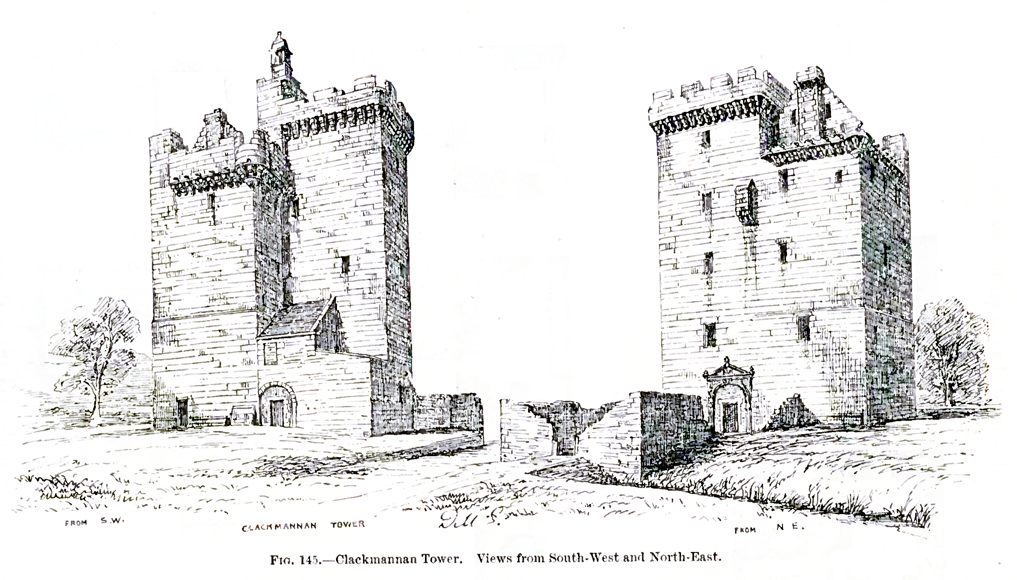 Clackmannan Tower, Scotland.